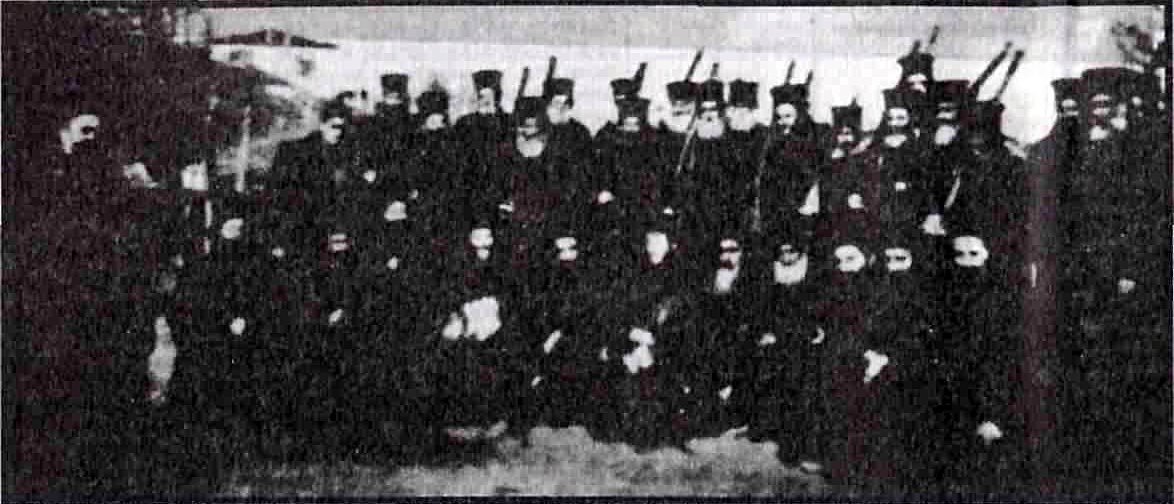 The Eulogios Kourilas band at the Macedonian Struggle. The band was in charge of Eulogios Kourilas and was formed from monks and priests from Athos Monasteries and from Southern Greece.(Source in Greek)